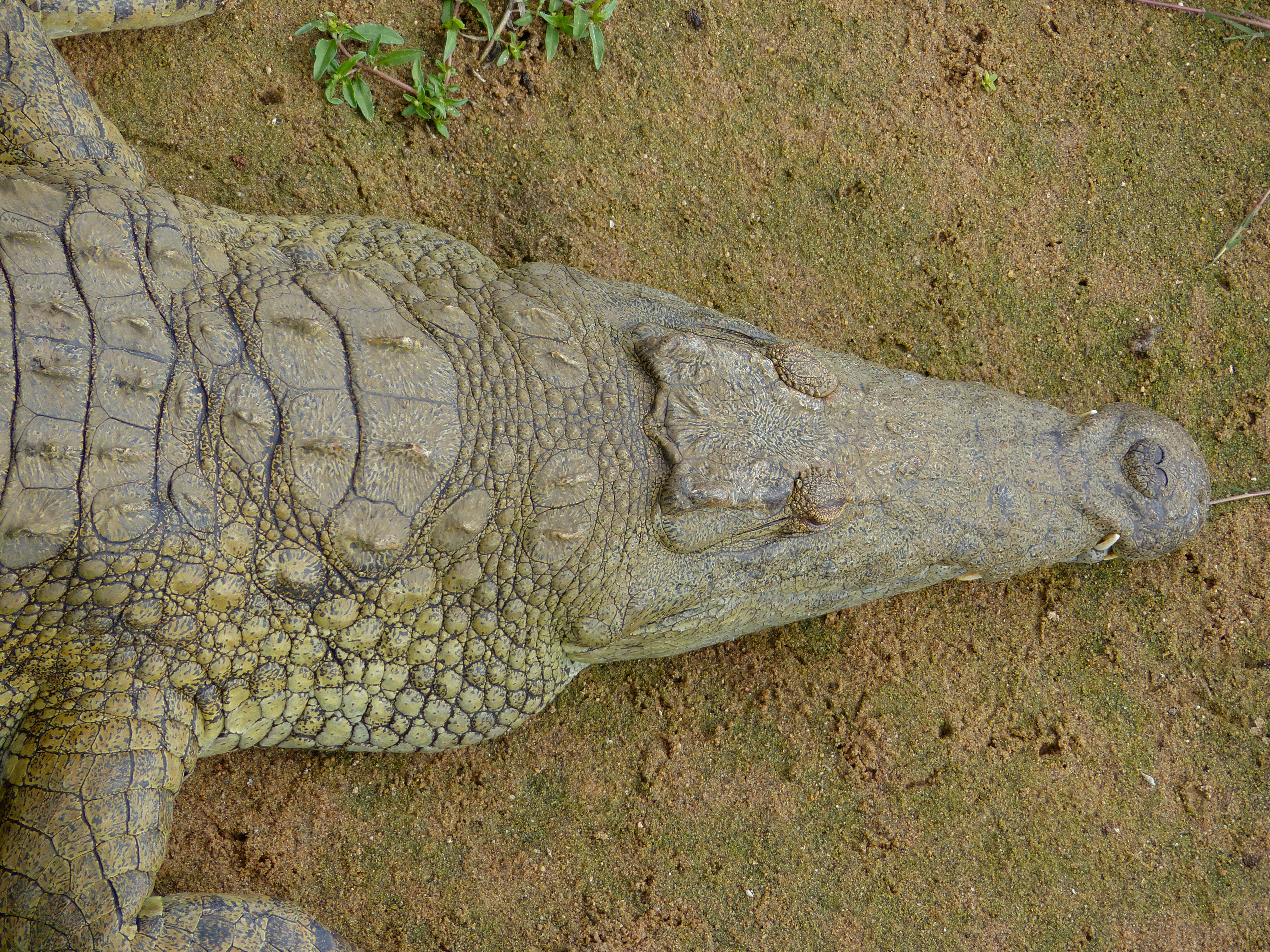 Letaba Bridge, H1-6 Road North of Letaba, Kruger NP, SOUTH AFRICA